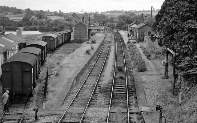 Bromyard Station (remains). View SE, towards Worcester; ex- Great Western Worcester - Bromyard - Leominster branch. Line closed completely on to Leominster 15/9/52 although kept intact for wagon storage until 1958; Bromyard station and line to Worcester (Leominster Junction) were closed completely on 7/9/64. Clearly in 1963 only the former Up platform line was in use. Nowadays, on the first mile out of Bromyard in the direction shown here, the miniature (2 ft.-gauge) Bromyard & Linton Railway runs.